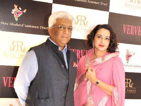 Samarjitsinh Gaekwad with his wife Radhikaraje at the felicitation program of NGO Bharat Maa Shaheed Samman Trust in 2017.